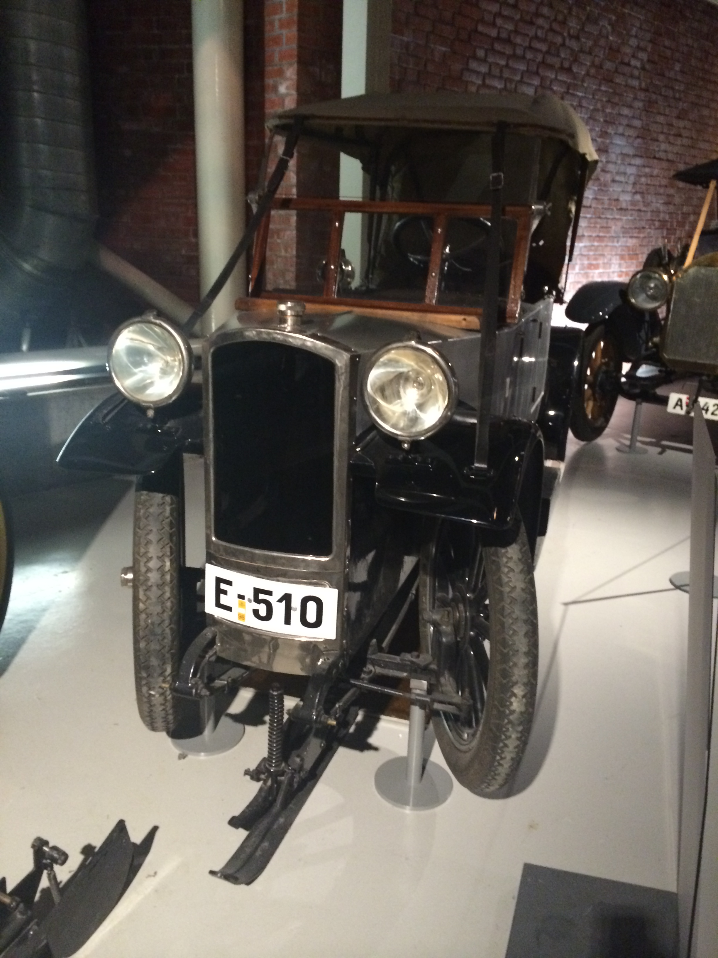 Military motorsled-car produced by Mr Hans Christian Bjering at Gjøvik in Norway, 1925. This was the second specimen of the kind. Mr Bjering started producing cars in 1918.